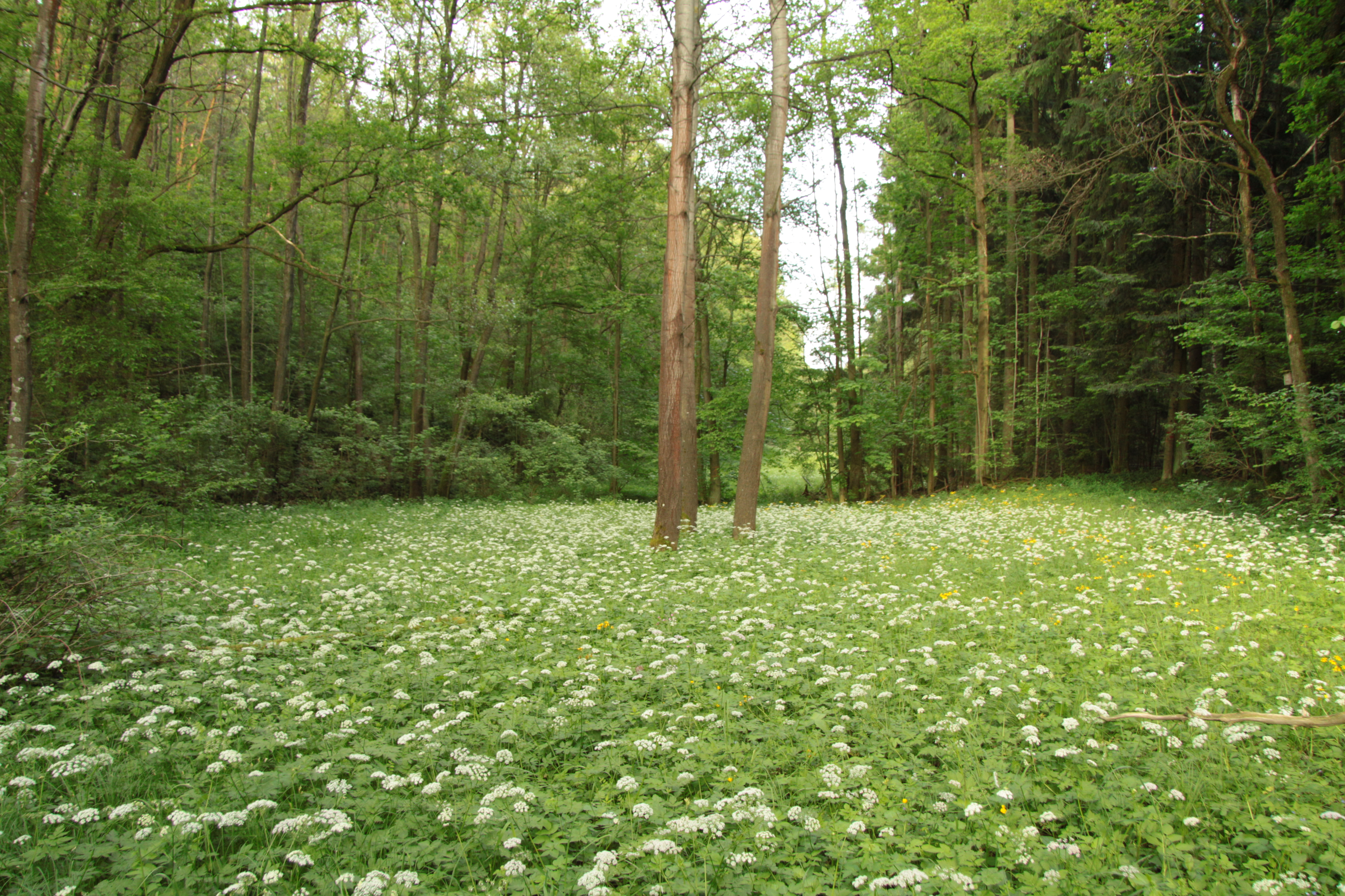 Natural monument Mastnice near Hracholusky, Prachatice District, Czech Republic - Google Maps - Google Earth